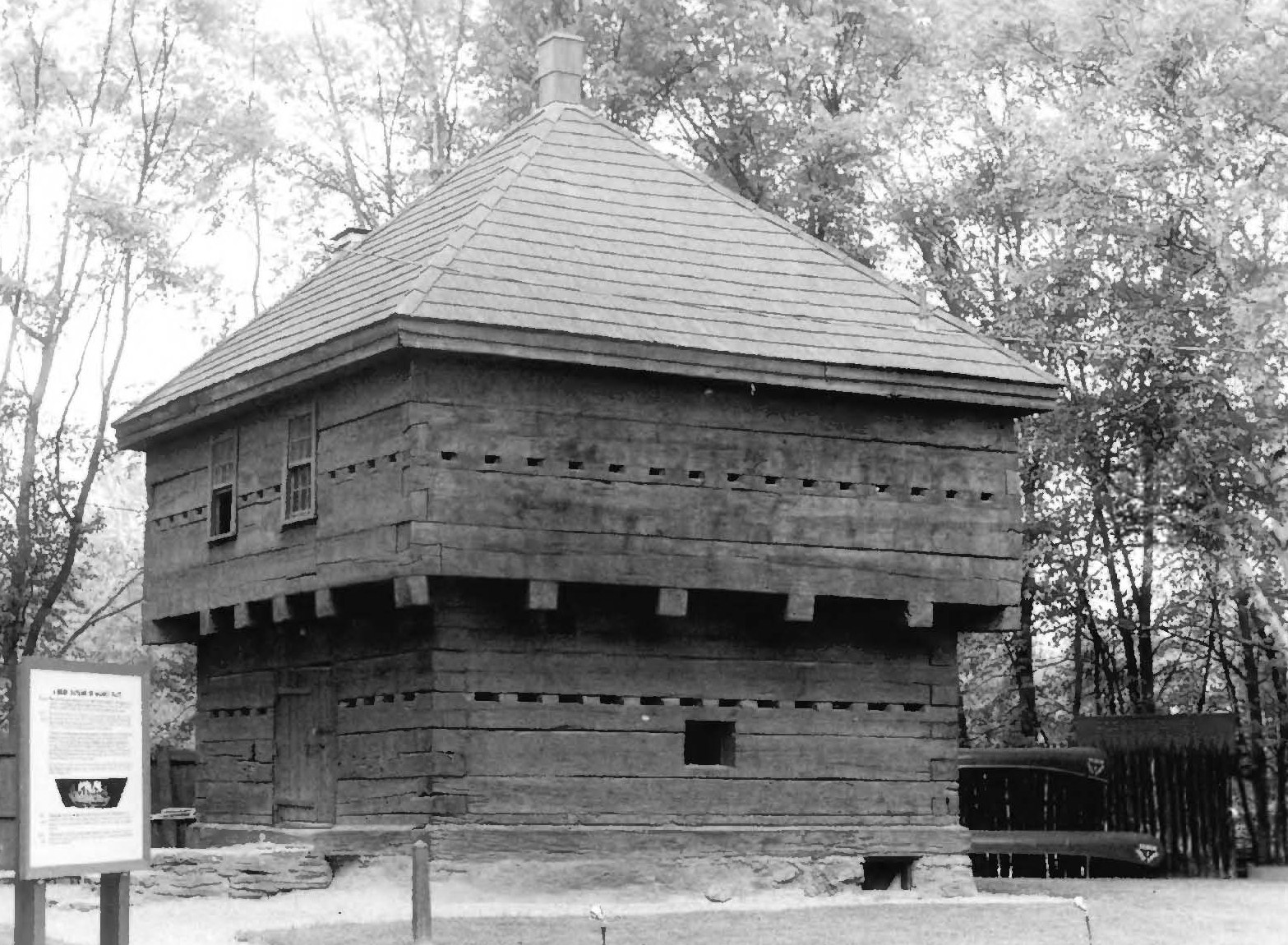 Fort Kent, Fort Kent (Aroostock County, Maine) cropped This image or media file contains material based on a work of a National Park Service employee, created as part of that person's official duties. As a work of the U.S. federal government, such work is in the public domain. See the NPS website and NPS copyright policy for more information. Object location47° 15′ 09″ N, 68° 35′ 27″ W